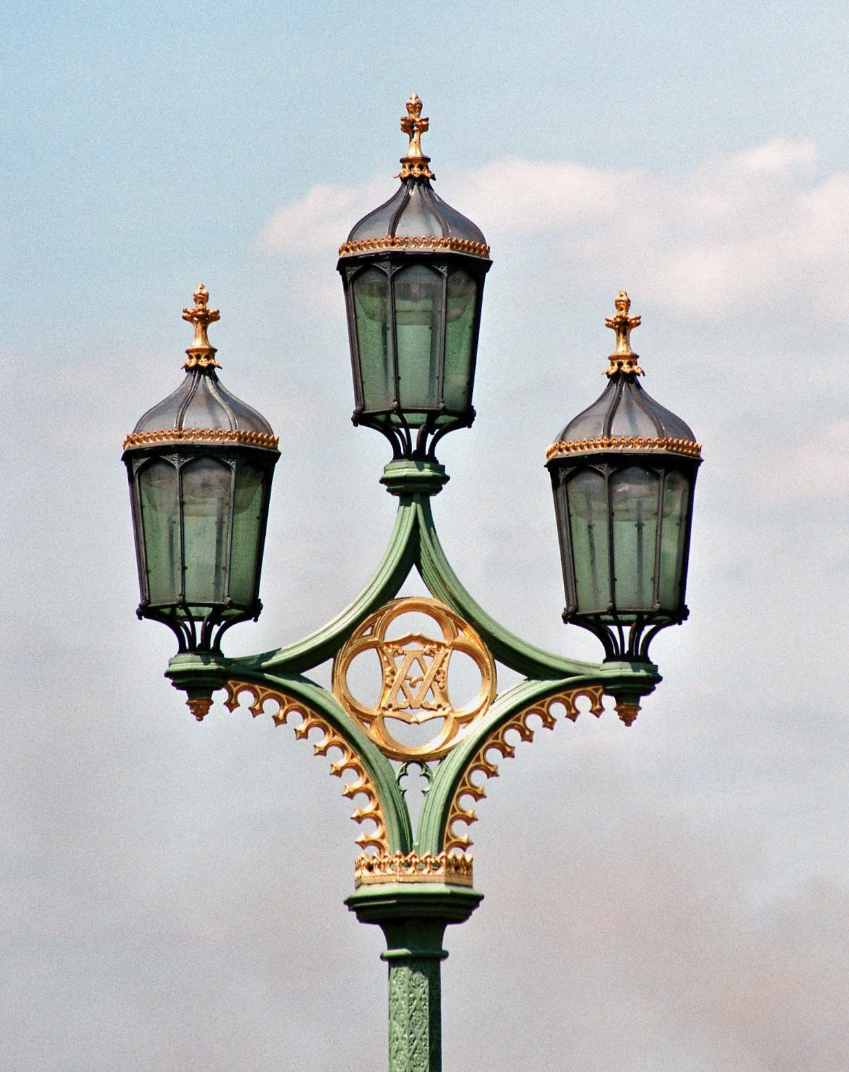 Street lanterns on Westminster Bridge in London / UK